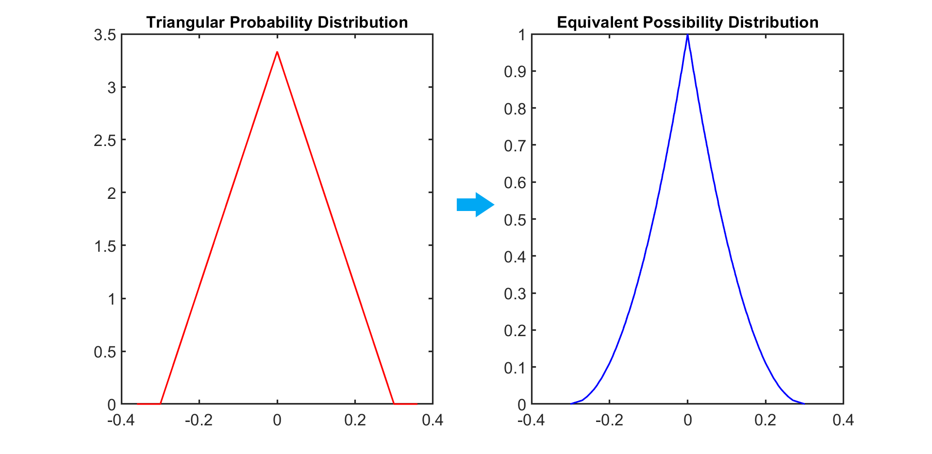 A triangular probability distribution and its equivalent distribution in possibility domain done using probability possibility transformation.